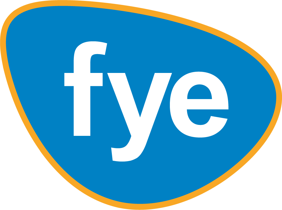 Logo of FYE